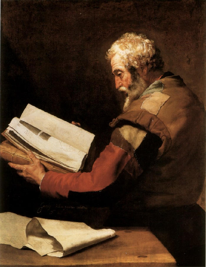 Jose de Ribera - Anaxagoras. 120 x 95 cm